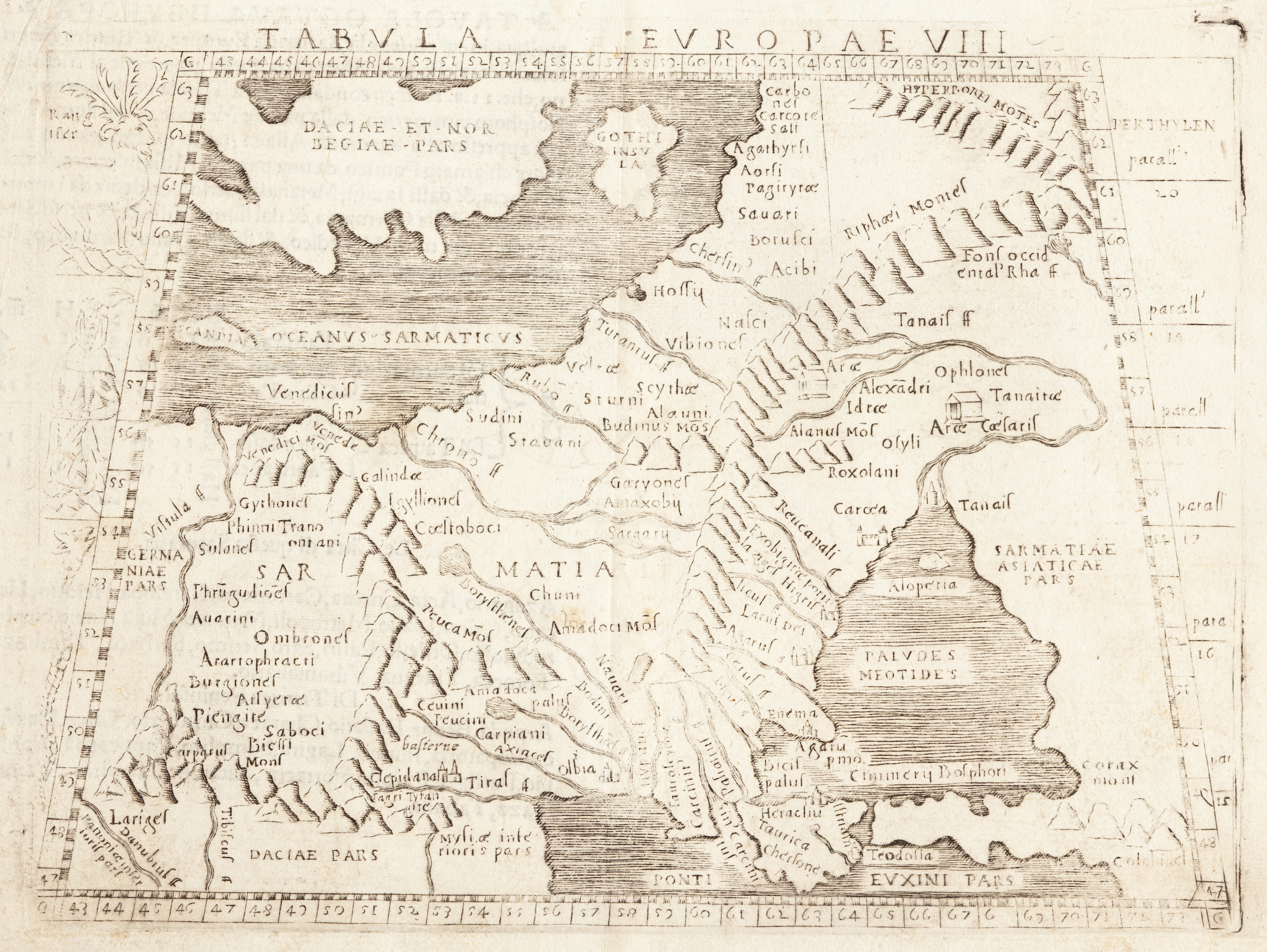 The 8th European Map (Octava Europae Tabula) from Giacomo Gastaldi's edition of Ptolemy's Geography.